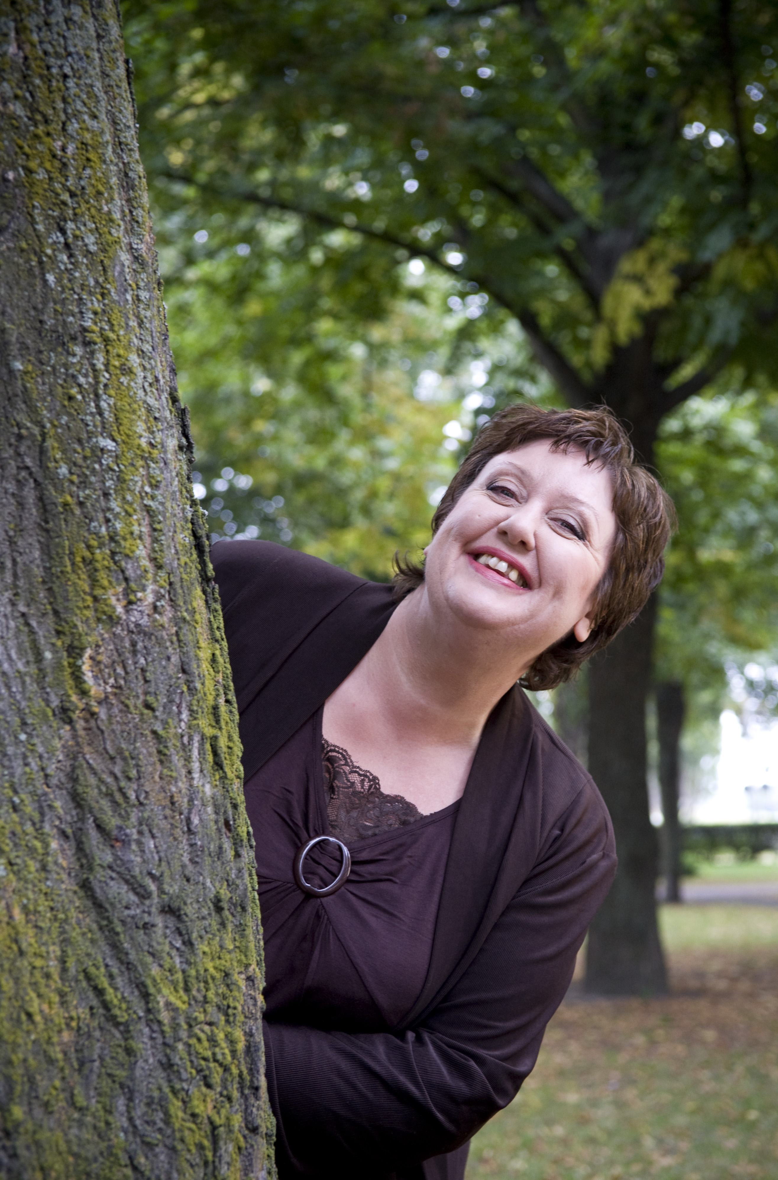 Swedish comedian Babben Larsson 2013.